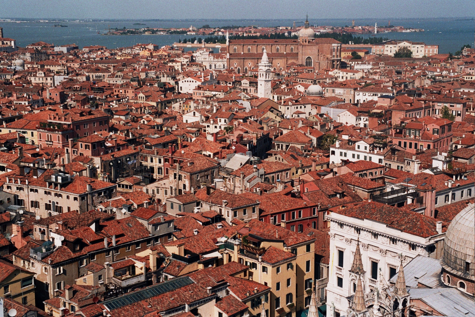 Venice as seen from San Marco tower